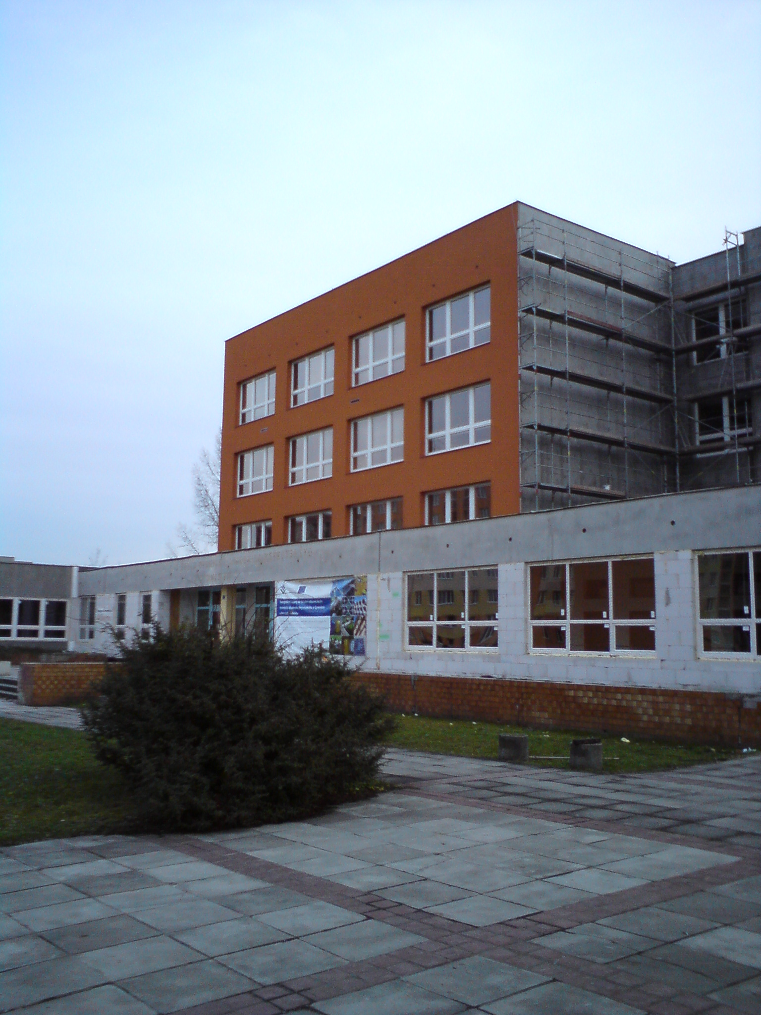 Building insulation of Secondary Technical Chemical School of Academician Heyrovsky and Grammar School in Ostrava-Zábřeh.